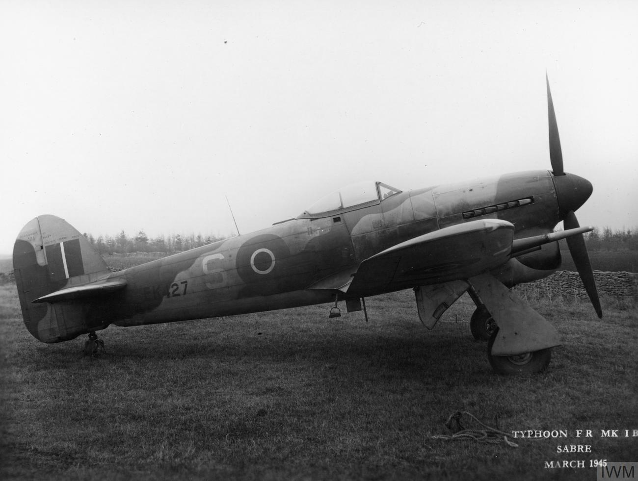 Hawker Typhoon FR1b, EK427. One of sixty Typhoons built as armed, photo-reconnaissance aircraft for use by the 2nd Tactical Air Force. This aircraft was flown by the 4 Squadron and 268 Squadron of the RAF. Photographed at Number 5 Maintenance Unit, RAF Kemble, Gloucestershire (now Cotswold Airport).